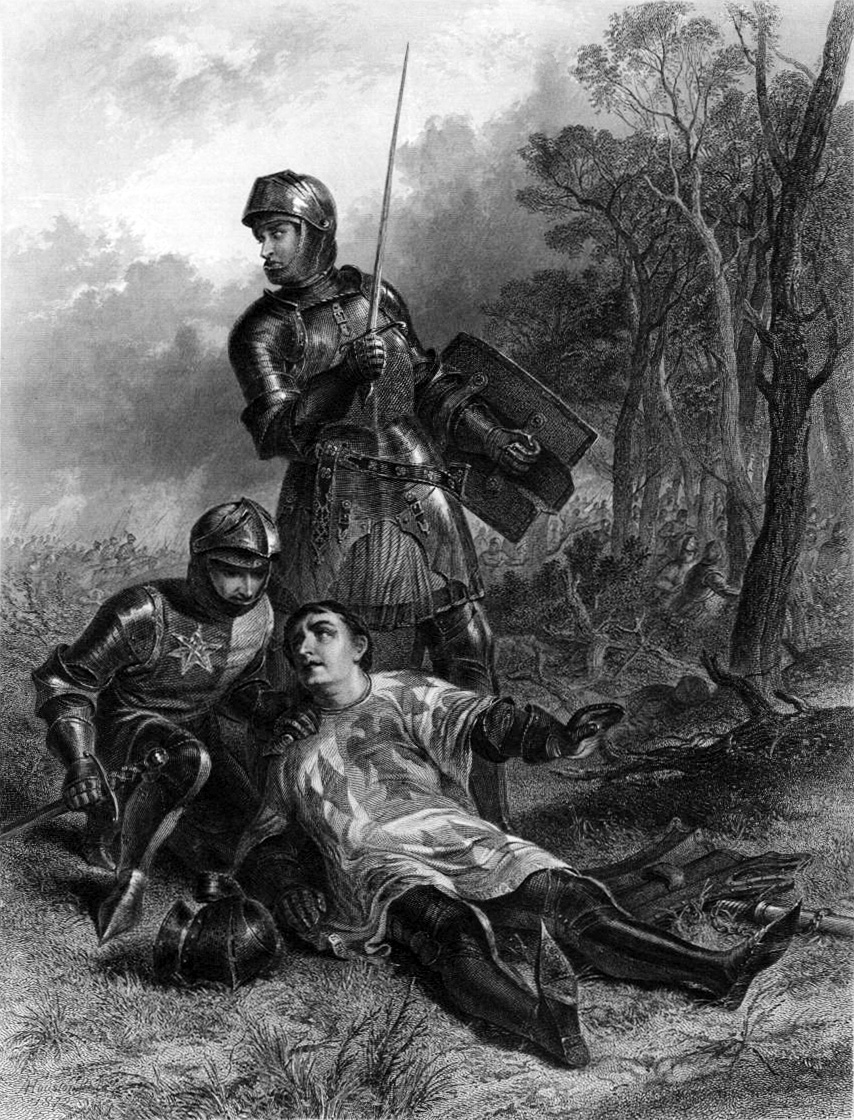 Portrayal of Shakespeare's version (Act V, Scene ii, of Henry VI, Part 3) of the Earl of Warwick's death at the Battle of Barnet in 1471: this engraving was published in: Shakespeare, William; Knight, Charles (editor), 1872, Imperial Edition of the Works of Shakespeare. Virtue and Company.[1][2]